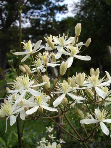 Clematis recta